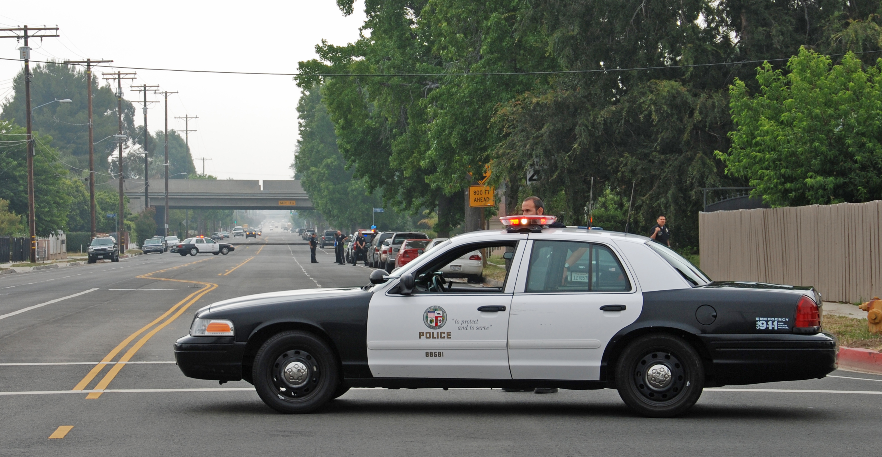 LAPD Ford Crown Victoria Police Interceptor stationed at a burglary investigation.